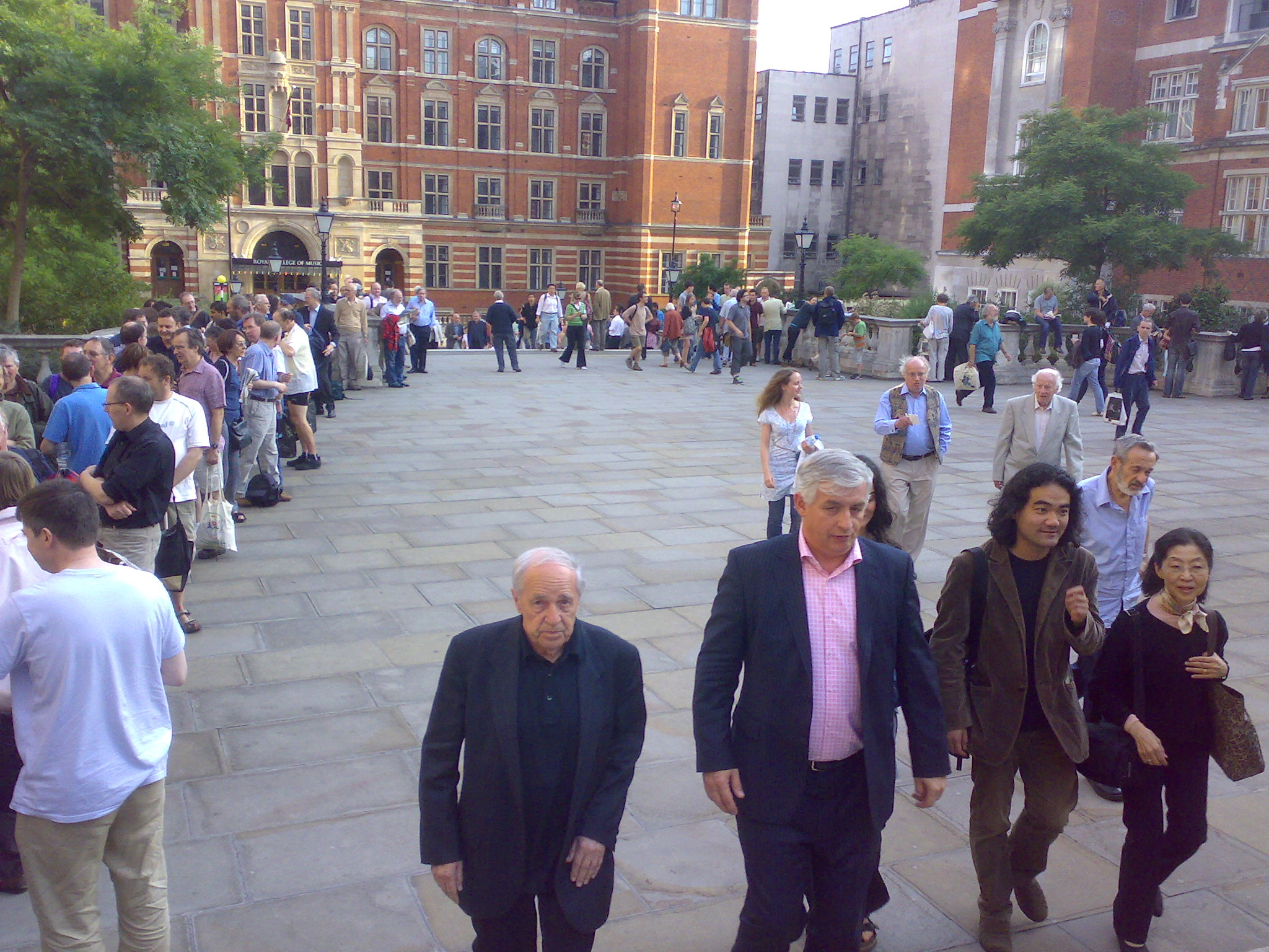 Pierre Boulez; Director of the Proms, Roger Wright; and Dai Fujikura; walk back from the Royal College of Music to the Royal Albert Hall where Boulez was about to conduct a concert